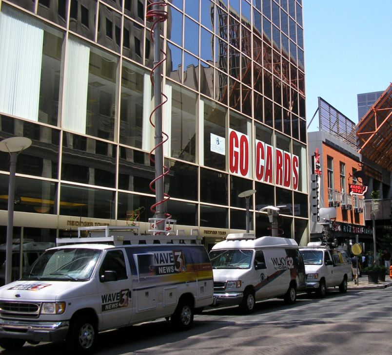 Vans representing the major 3 news networks in Louisville, Kentucky parked during coverage of an event